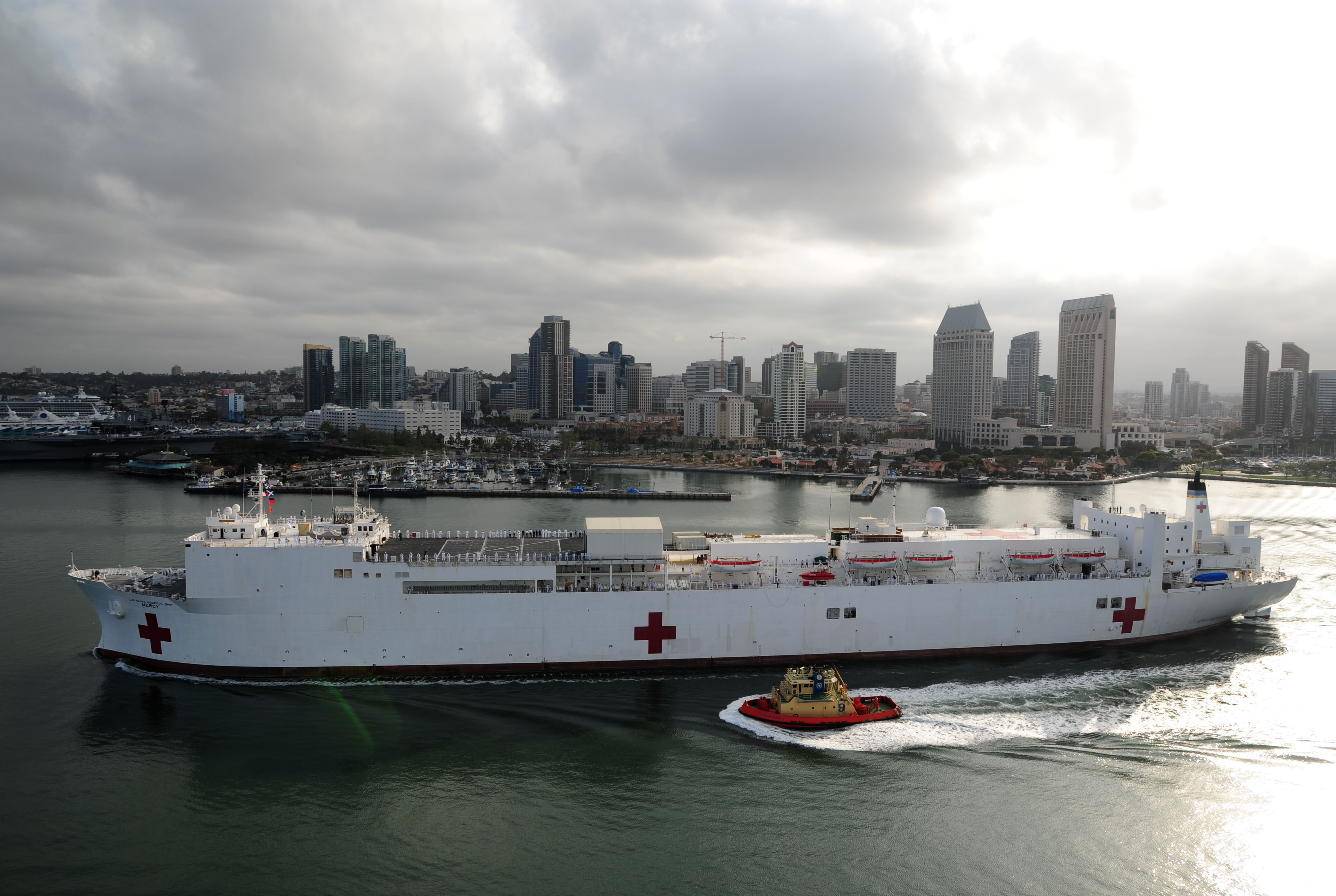 SAN DIEGO (May 3, 2012) The Military Sealift Command hospital ship USNS Mercy (T-AH 19) transits San Diego Harbor as the ship departs for Pacific Partnership 2012. Pacific Partnership is an annual U.S. Pacific Fleet humanitarian and civic action exercise designed to work with and through host nations to build partnerships and a collective ability to respond to natural disasters. (U.S. Navy photo by Mass Communication Specialist 2nd Class Eva-Marie Ramsaran/Released) 120503-N-WA347-223 Join the conversation navylive.dodlive.mil